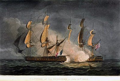 Capture of La Guerrière by HMS Blanche 19 July 1806. Taken from the Naval Chronology of Great Britain; Or, An Historical Account of Naval and Maritime Events from the Commencement of the War in 1803 to the End of the Year 1816 ... by James Ralfe.